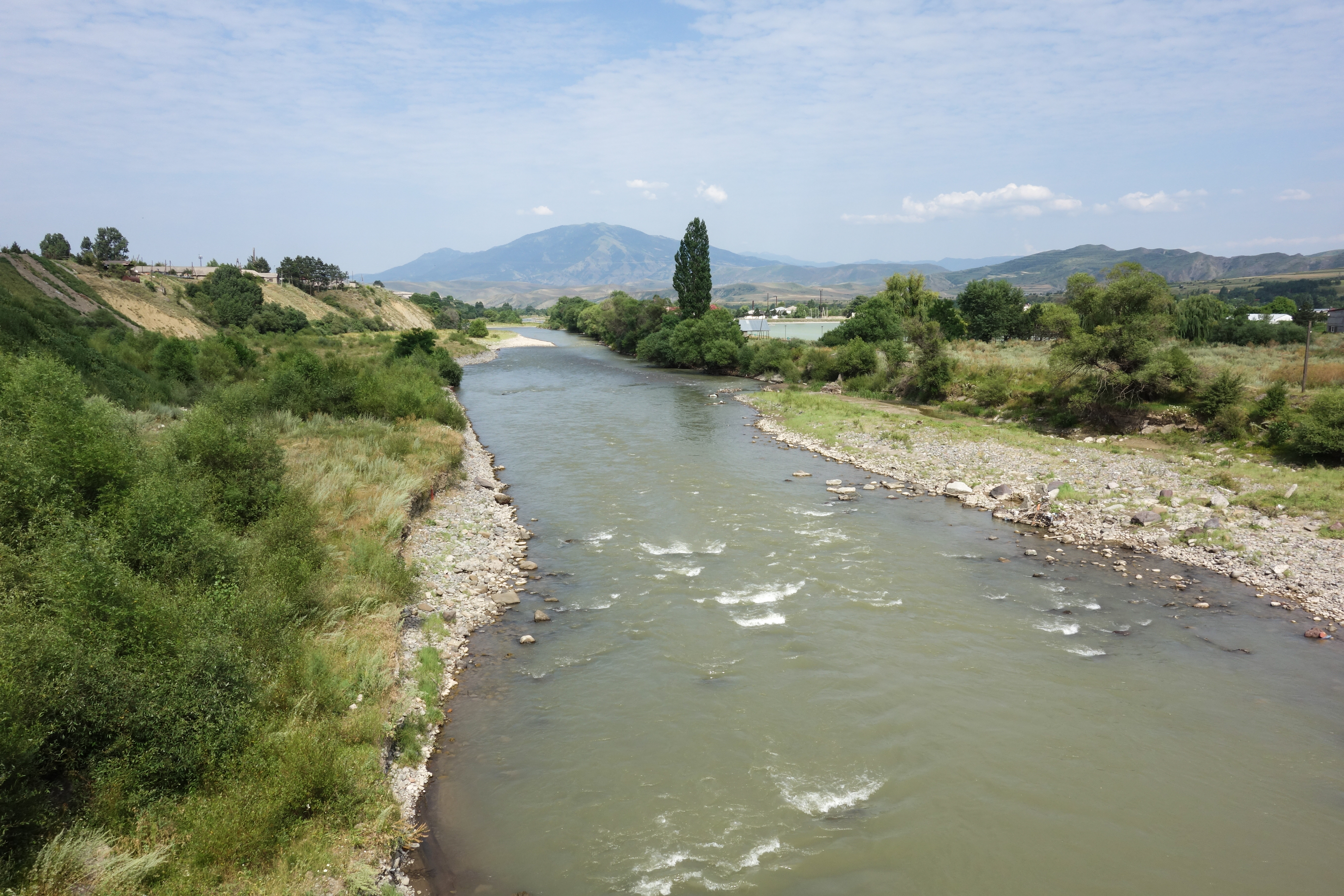 Potskhovistskali River in Akhaltsikhe, Georgia